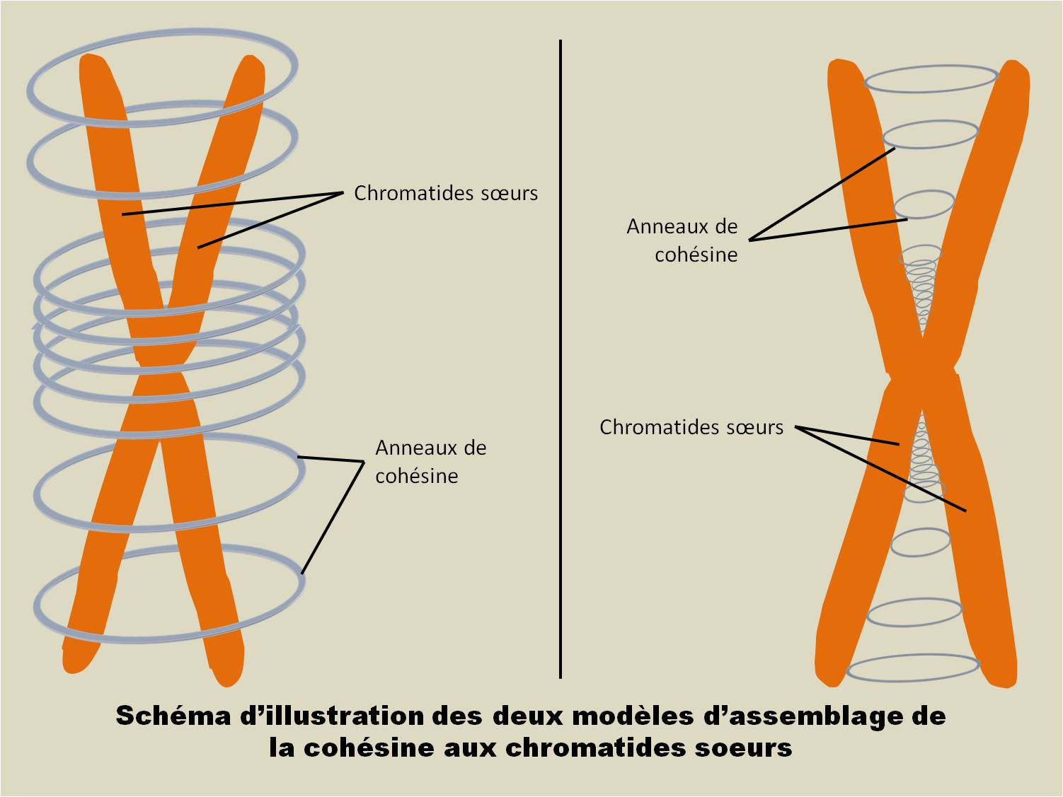 illustrations des deux modèles d'assemblage de la cohesine aux chromatides soeurs